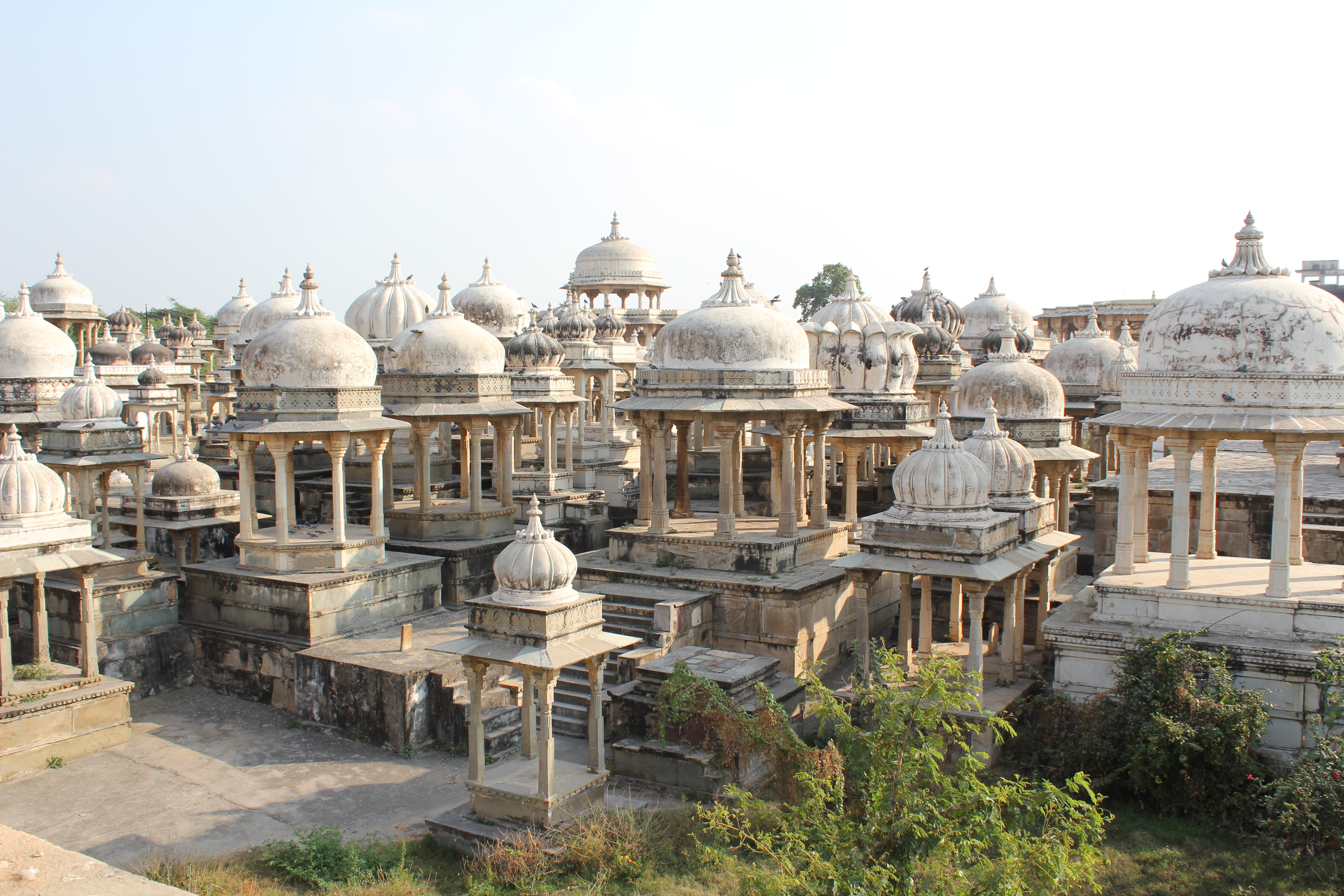 Udaipur, Ahar, cenotaphs Udaipur is a city in the state of Rajasthan in western India. Udaipur is the historic capital of the kingdom of Mewar in the former Rajputana Agency. The Sisodia clan of Rajputs ruled the Mewar and its capital was shifted from Chittorgarh to Udaipur after Maharana Udai Singh founded the city of Udaipur. The Mewar province became part of Rajasthan after India became independent. Udaipur is often called the "Venice of the East", and is also nicknamed the "Lake City" or "City of Lakes". Lake Pichola, Fateh Sagar Lake, Udai Sagar and Swaroop Sagar in this city are considered the most beautiful lakes in the country. The Ahar Cenotaphs are a group of royal cenotaphs located in Ahar, about 2 km east of Udaipur. The site contains more than 250 cenotaphs of the maharajas of Mewar that were built over approximately 350 years. There are 19 chhatris that commemorate the 19 maharajas who were cremated here. (source: and